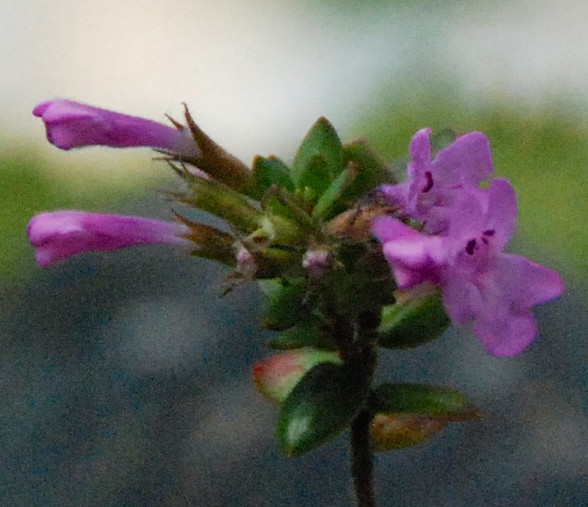 Detail from leaves and flowers of Micromeria Glomerata